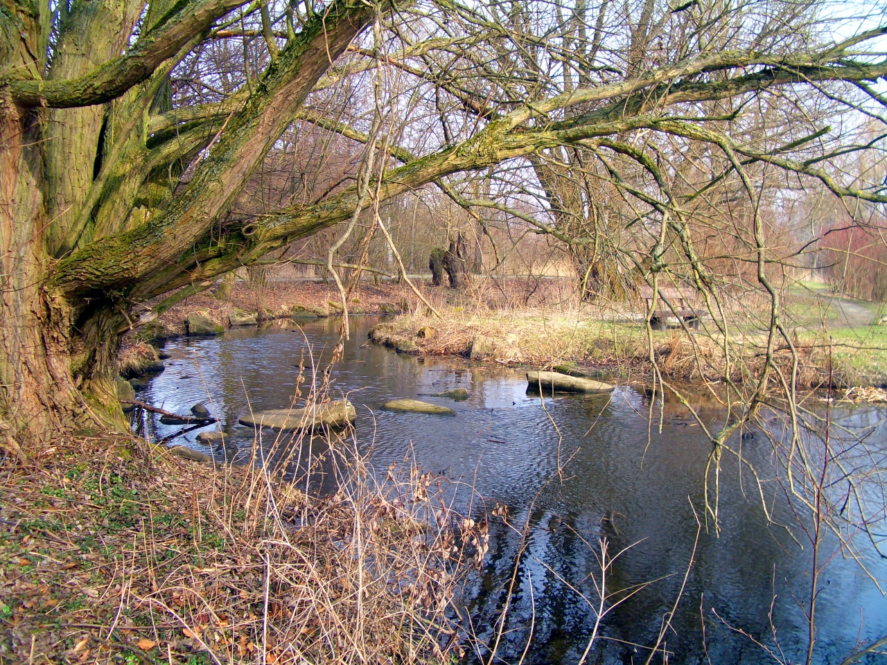 Fuhsekanal at Suedsee (former end of the channel)